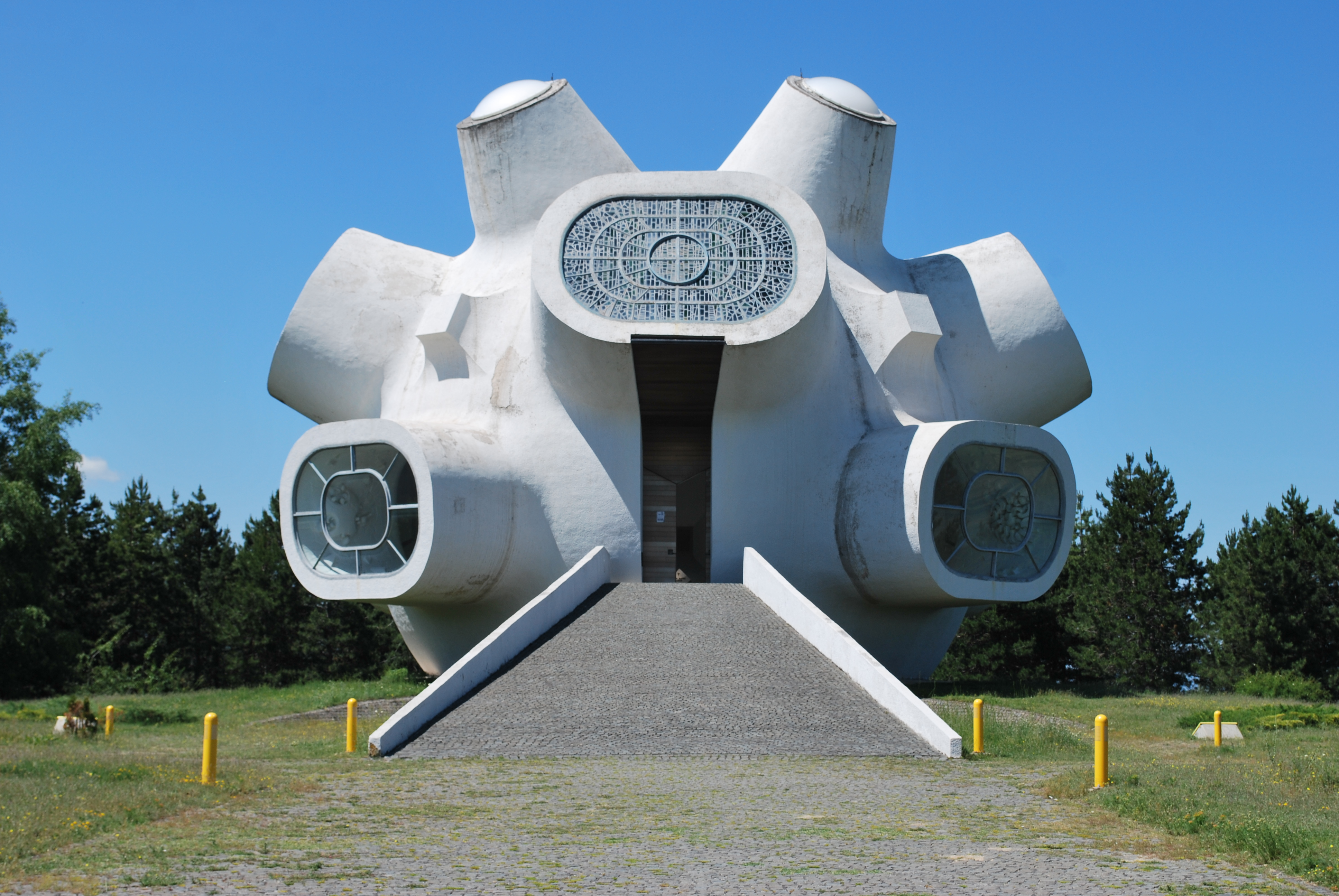 Makedonium in Kruševo, Macedonia